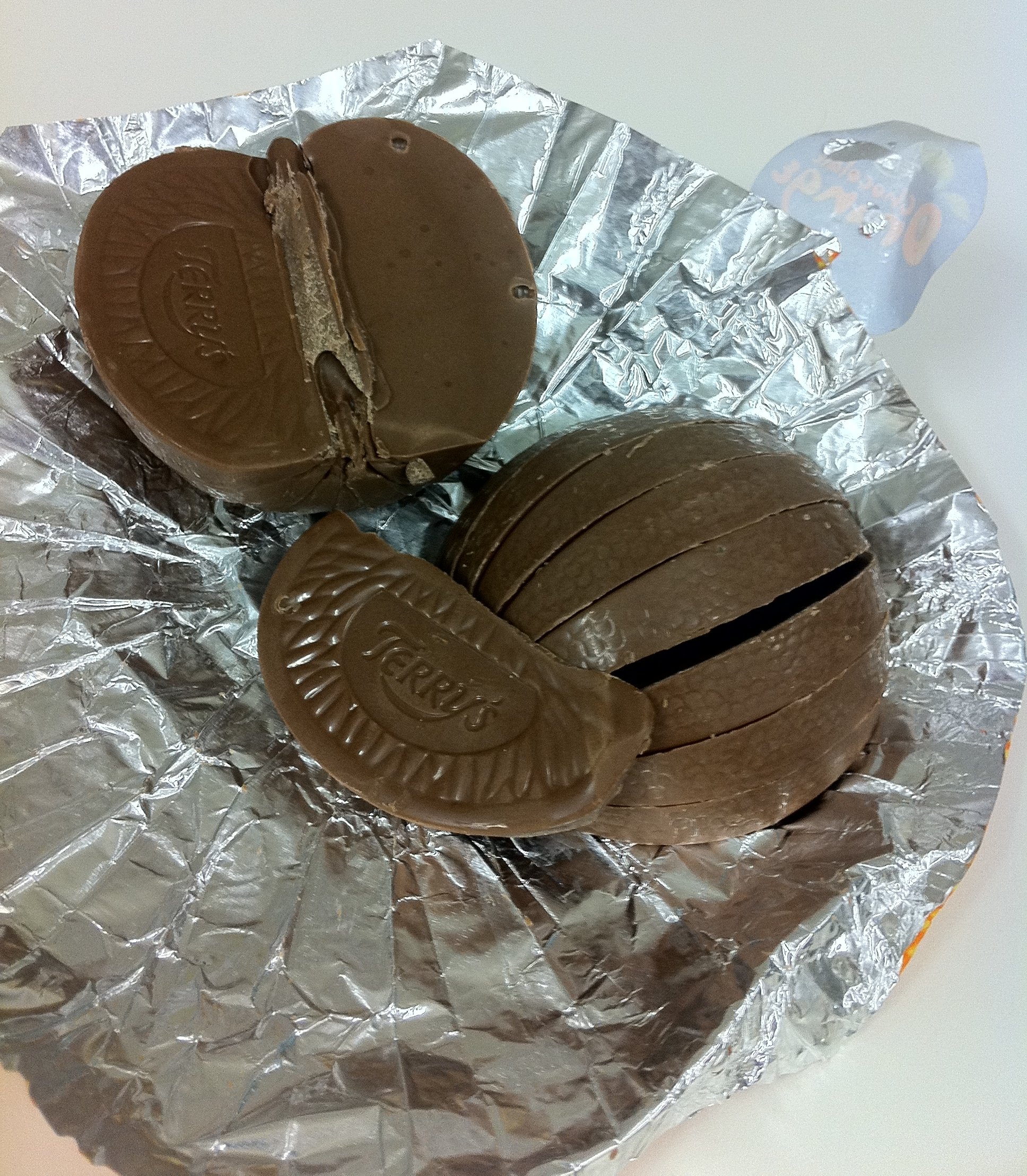 A photo of an unwrapped Terry's Chocolate Orange.